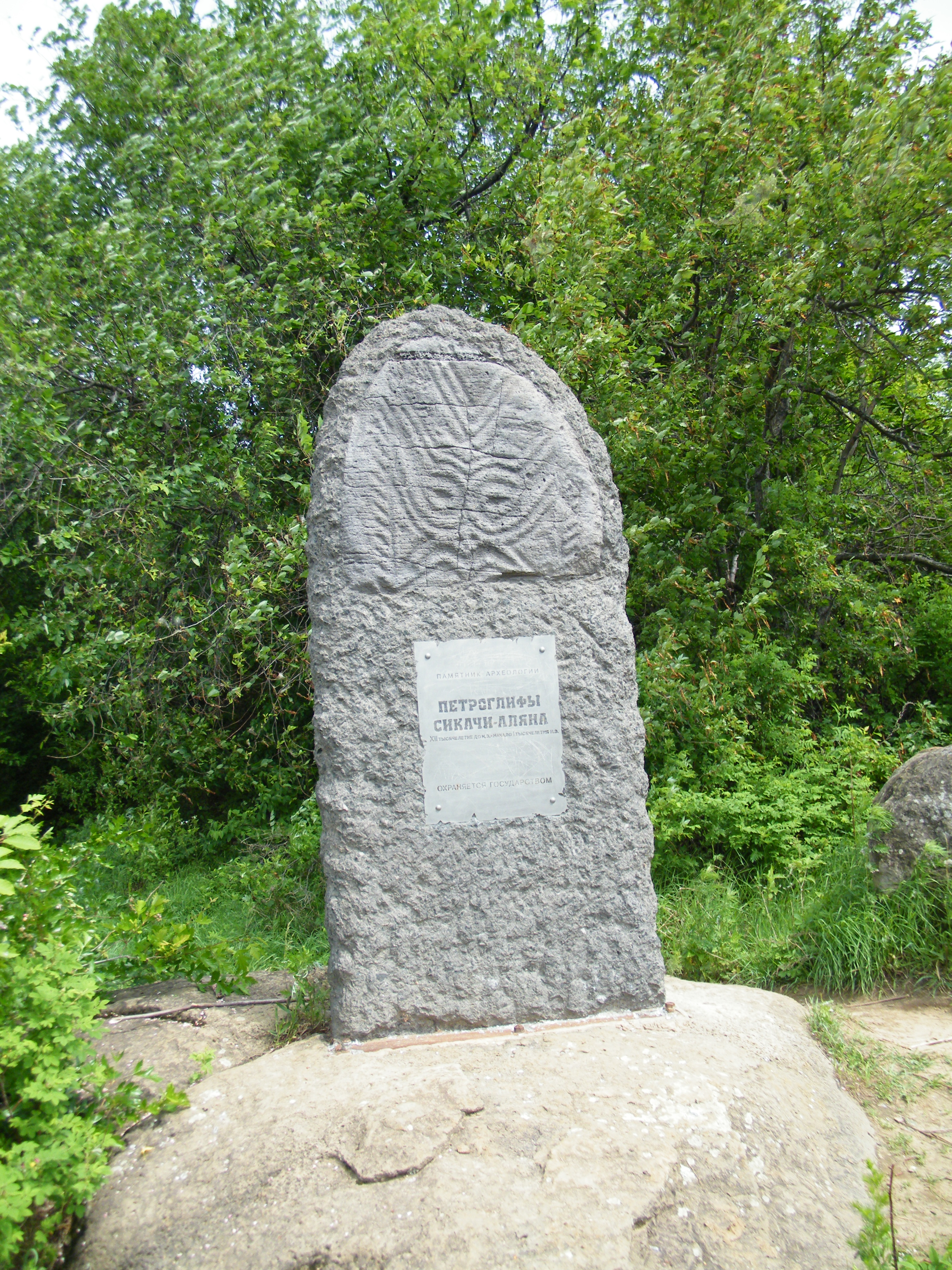 Petroglif of Sikachi-Alyan